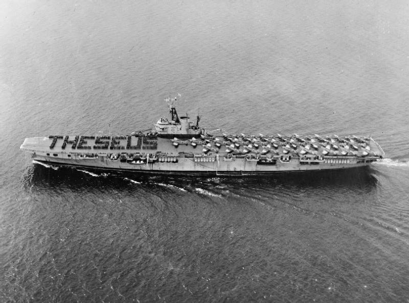 The British light fleet aircraft carrier HMS Theseus (R64) approaches Sasebo, Japan at the end of her deployment in Korea. Admiral A.K. Scott-Moncrieff, Flag Officer, Second in Command Far East, inspects the ship's company who are formed up to spell out the ship's name for the camera. Aircraft of the air group which took part in operations over Korea are parked on the deck.